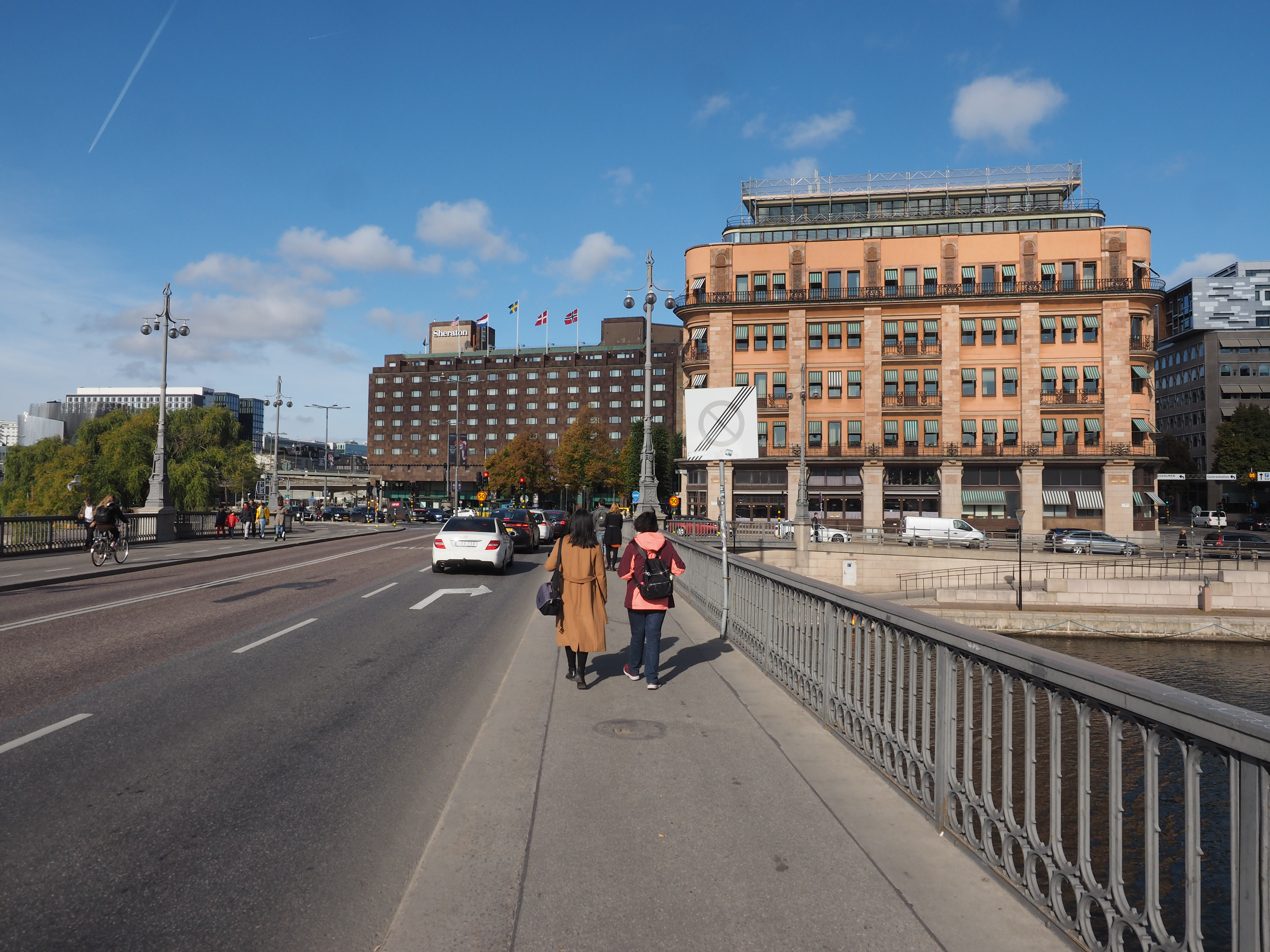 The Vasabron bridge in Stockholm, Sweden, looking northwest towards the city centre. In the background are the Sheraton Hotel (left, dark brown) and the Centralpalatset government office building (right, light brown).